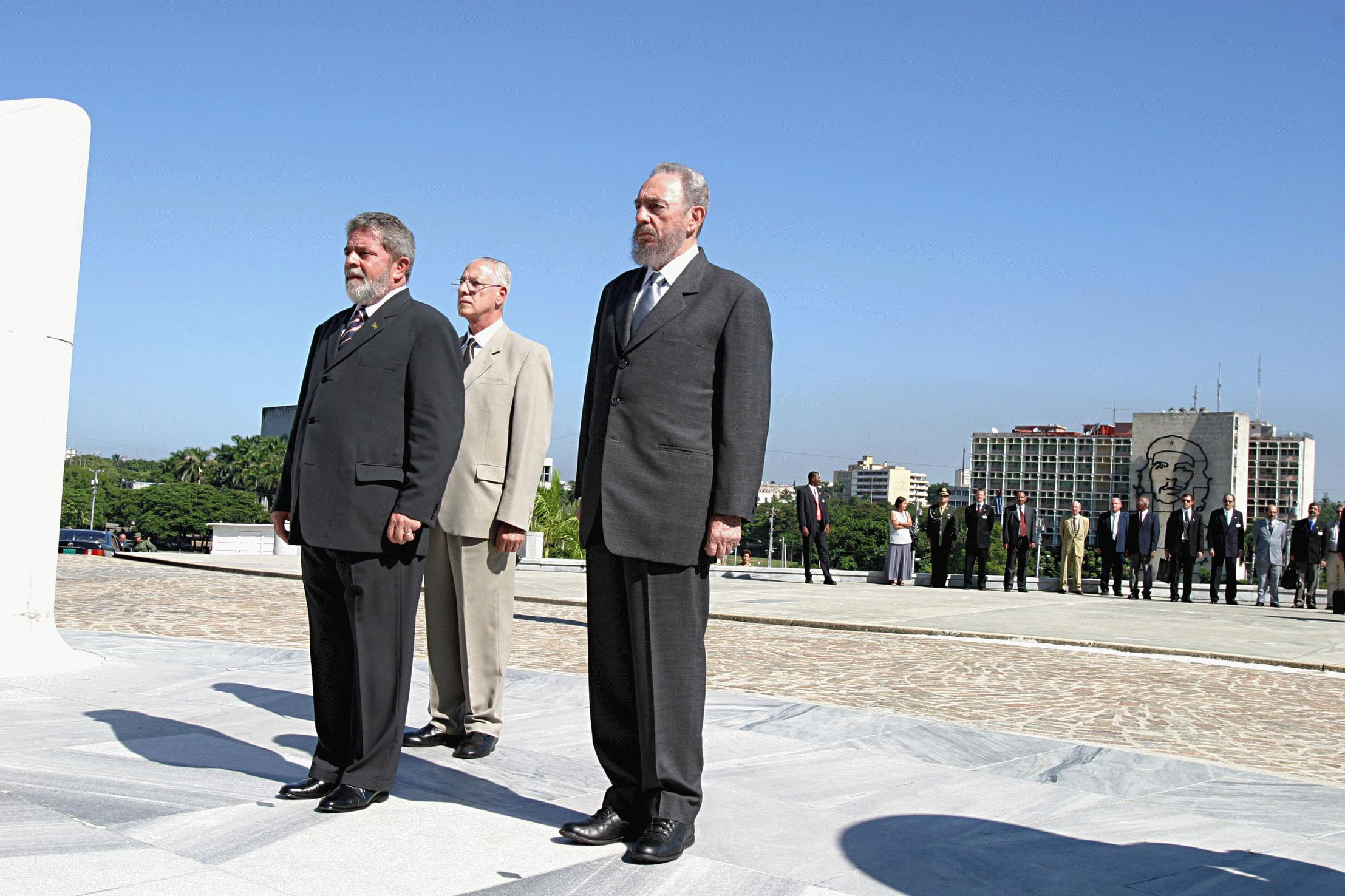 Fidel Castro and Brazillian president Luiz Inácio Lula da Silva — in Havana, Cuba. At the Memorial José Martí, in the Plaza de la Revolución.